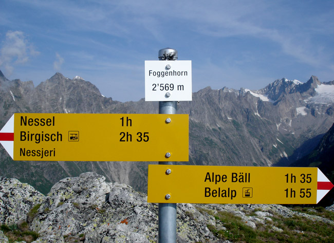 guide-post on the road in the mountains (Foggenhorn)